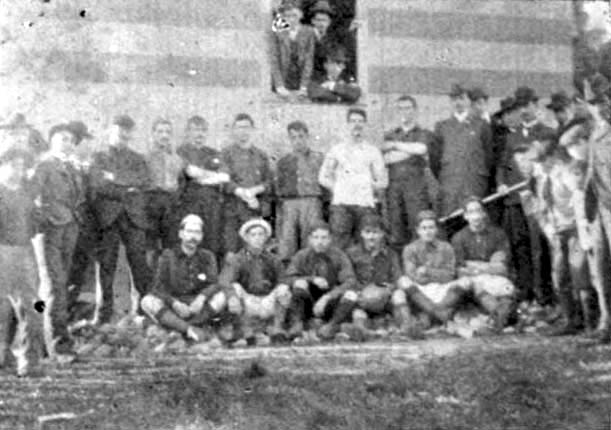 Albion F.C. team that played Belgrano A.C.